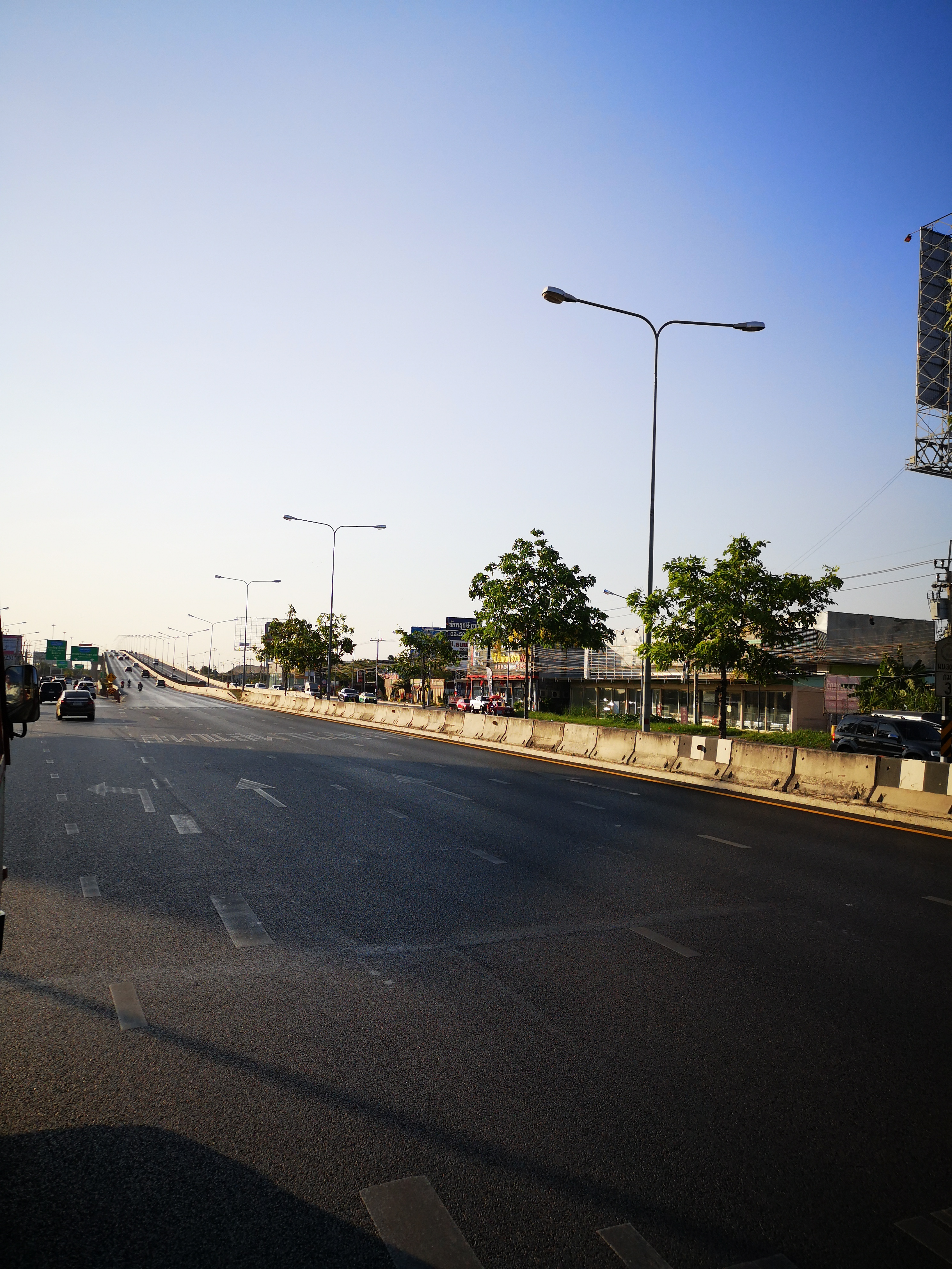 Thanon Chaiyaphruek